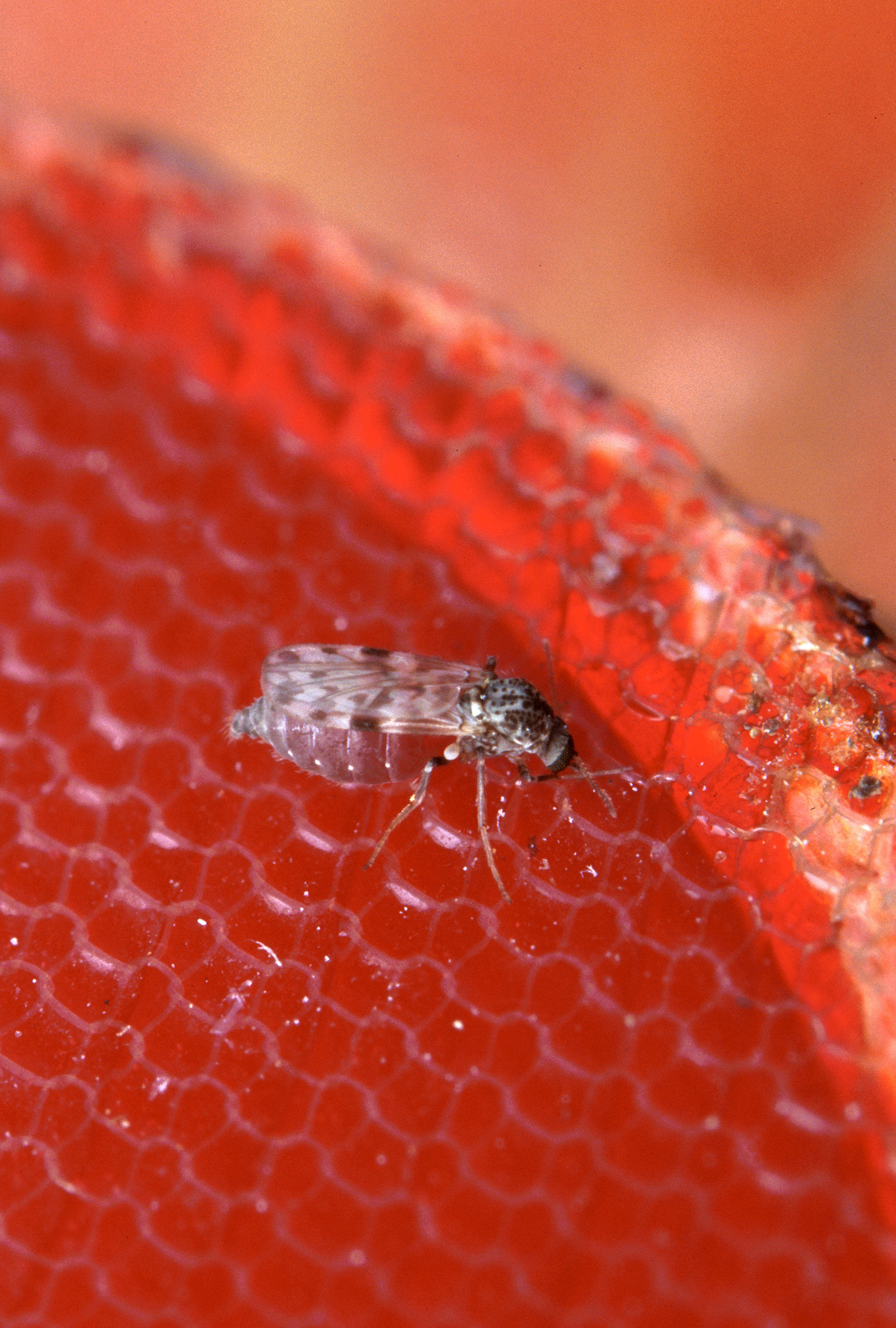 A sixteenth-inch-long female biting midge (Culicoides sonorensis) feeds blood delivered through artificial membrane developed for mass insect rearing. Photo by Scott Bauer. Image Number K8488-1. [1]